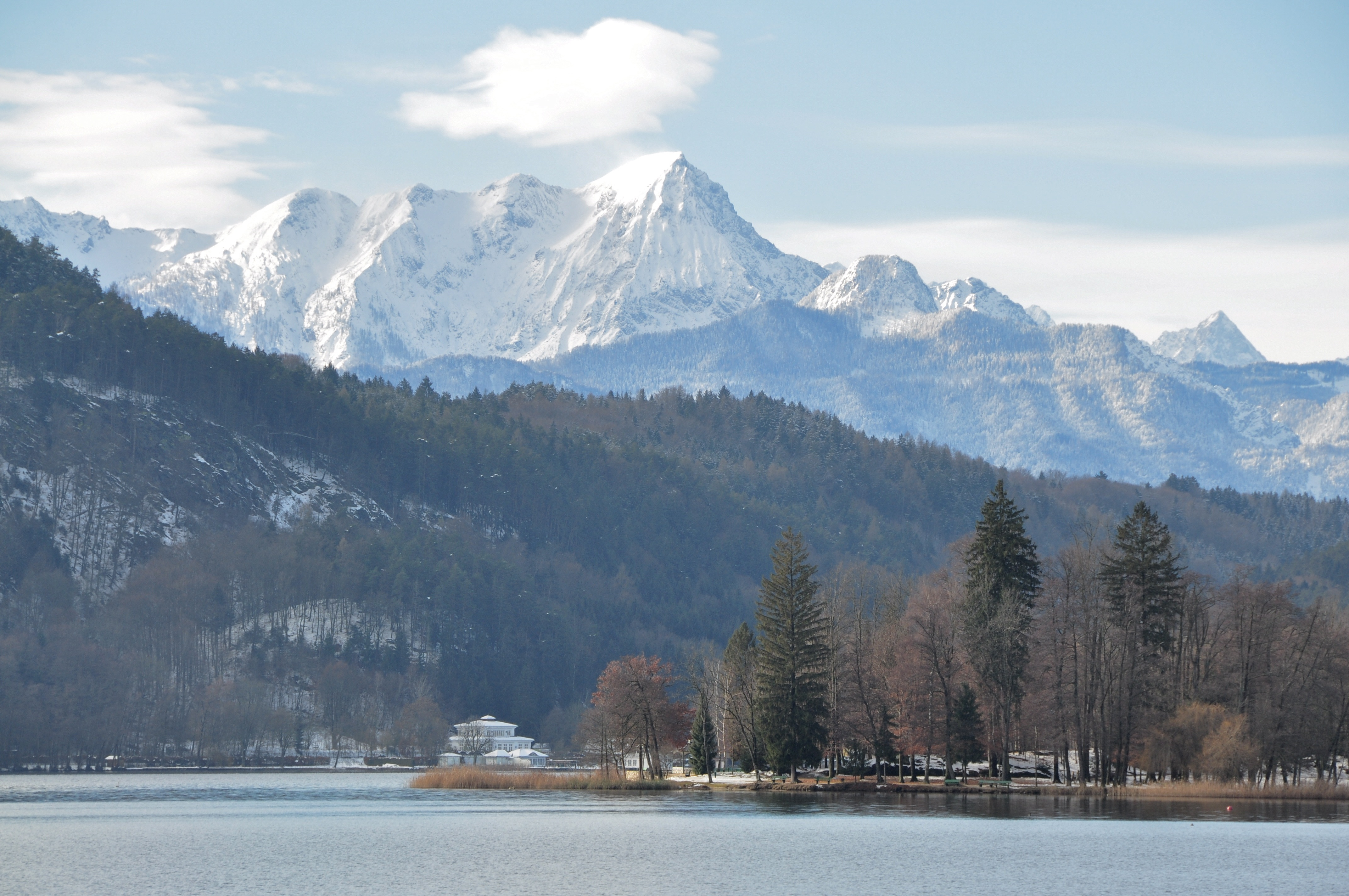 Peninsula with the Mittagskogel (snow peaked mountain) in the background, municipality Pörtschach am Wörther See, district Klagenfurt Land, Carinthia, Austria, EU